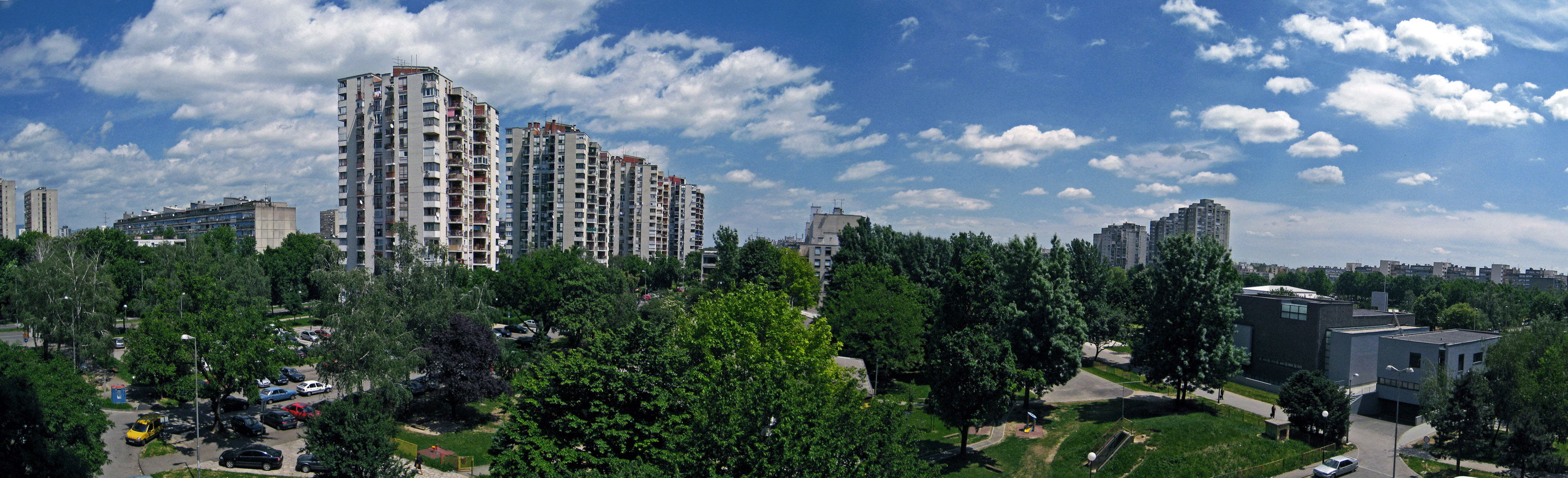 Panorama of Travno - Borough of Zagreb, Croatia.